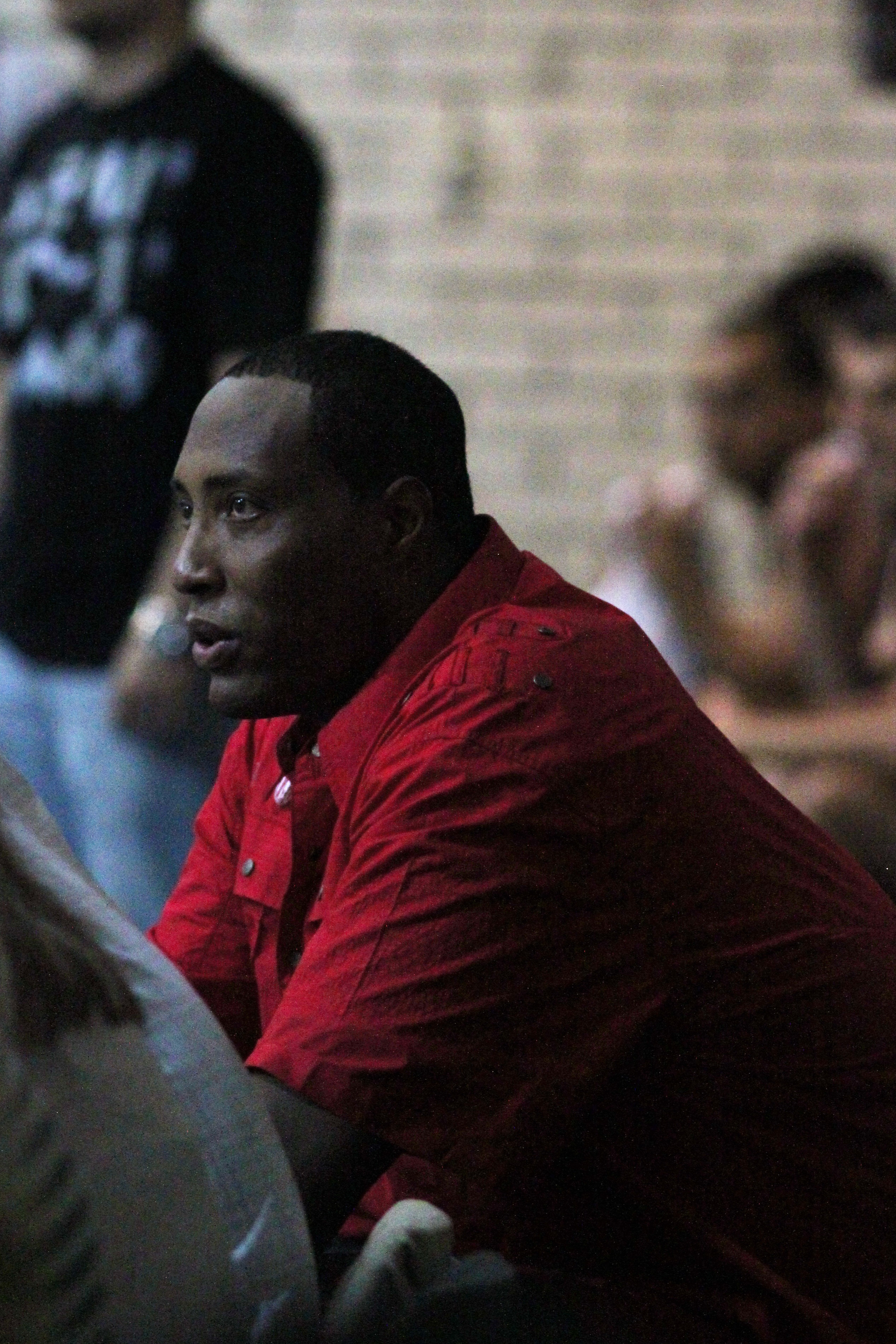 Priest Lauderdale (born August 31, 1973 in Chicago, Illinois) is a naturalized Bulgarian professional basketball player who grew up in the United States.